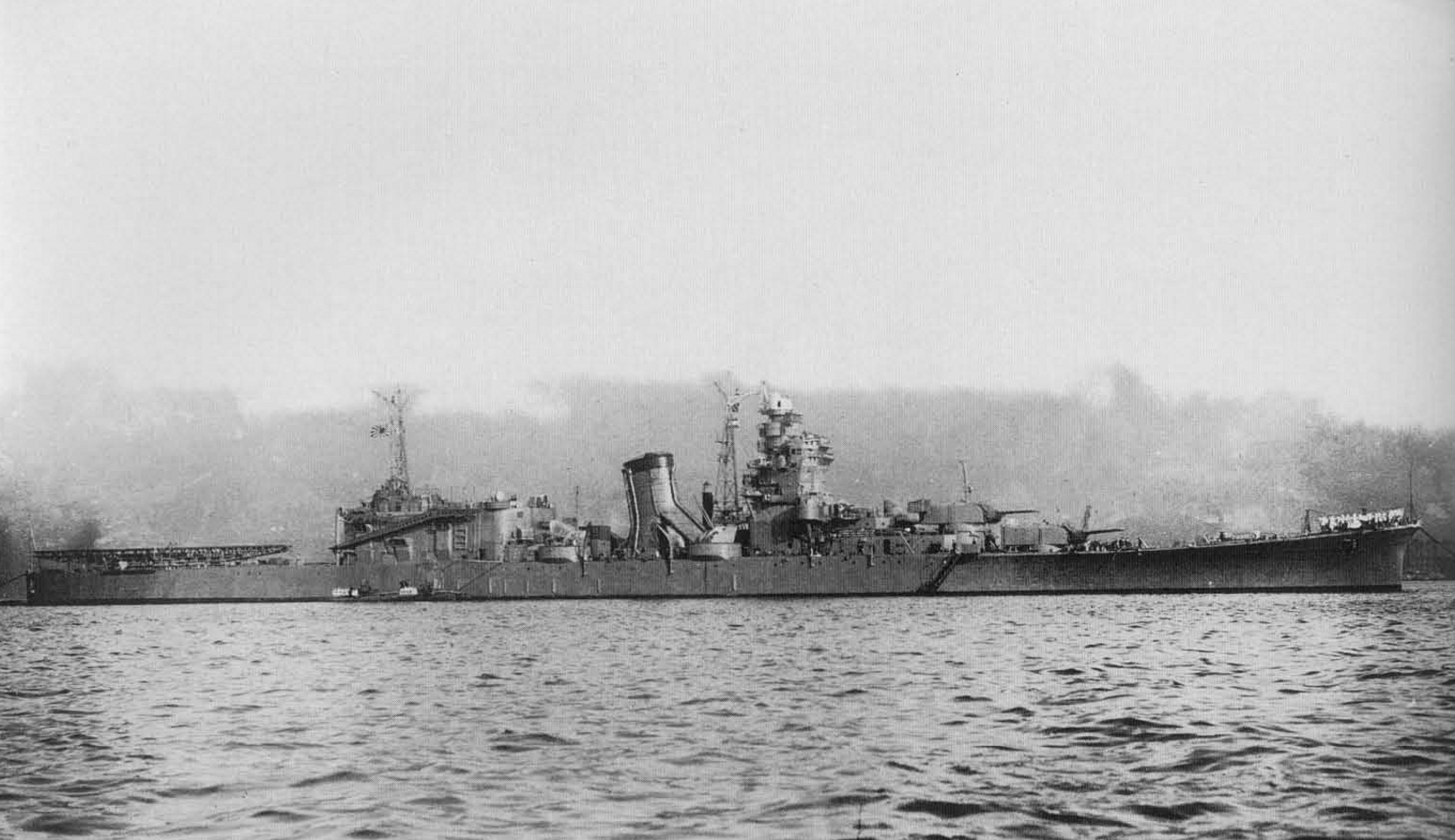 Japanese cruiser Oyodo at Kure Naval Arsenal, Hiroshima, in 1943.